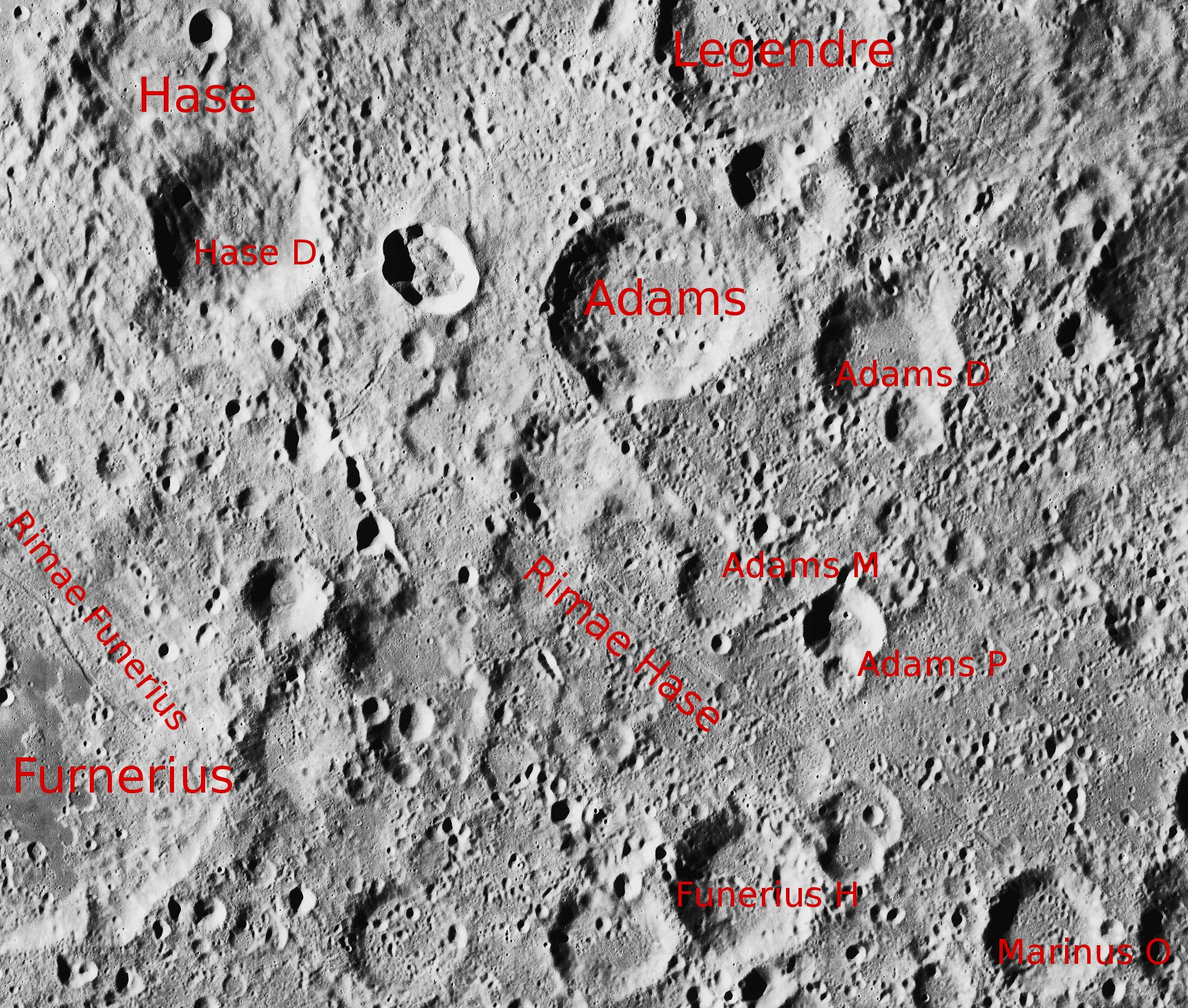 Rimae Hase with nearby craters (detail of LRO - WAC global moon mosaic; Mercator projection)